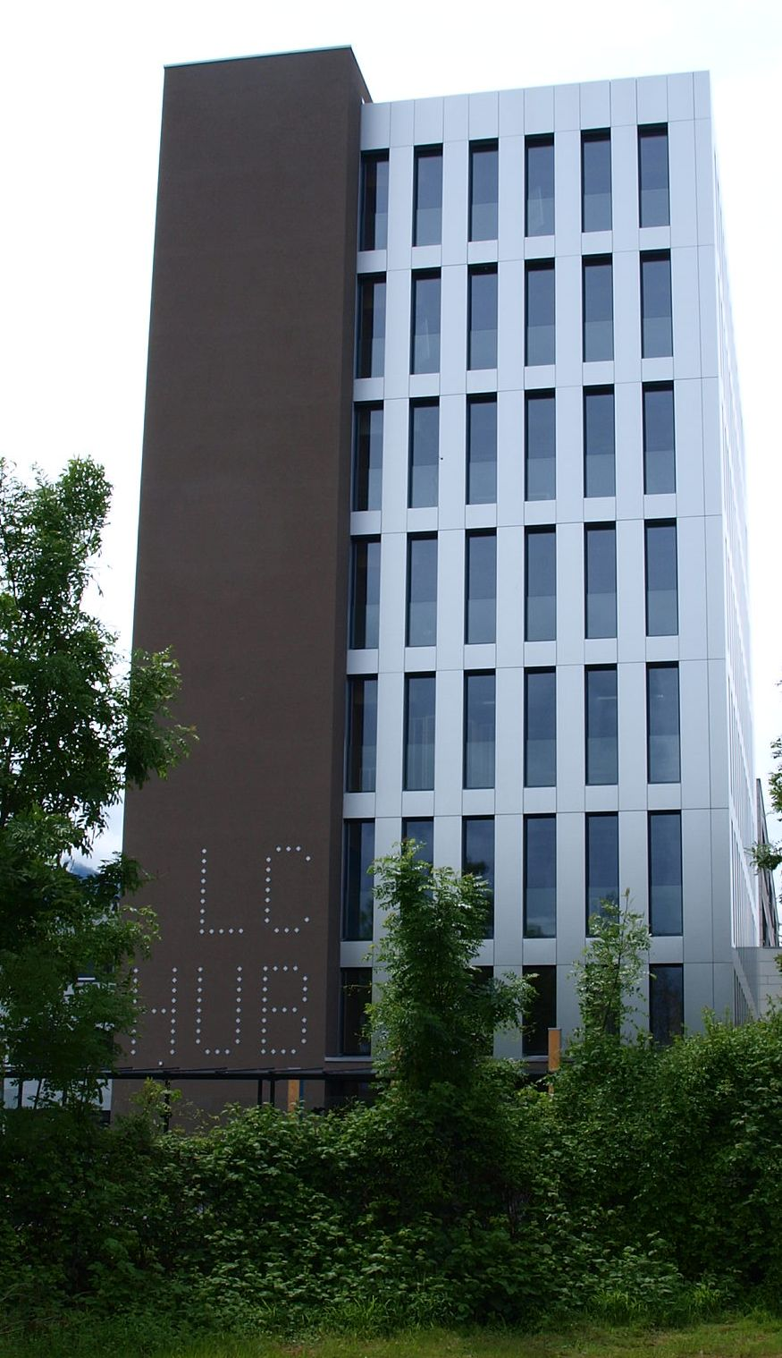 LCT ONE (LifeCycle Tower No. 1), Dornbirn, Vorarlberg Austria. multifunctional demonstrationbuilding in wood-boltwork. North side of the building.